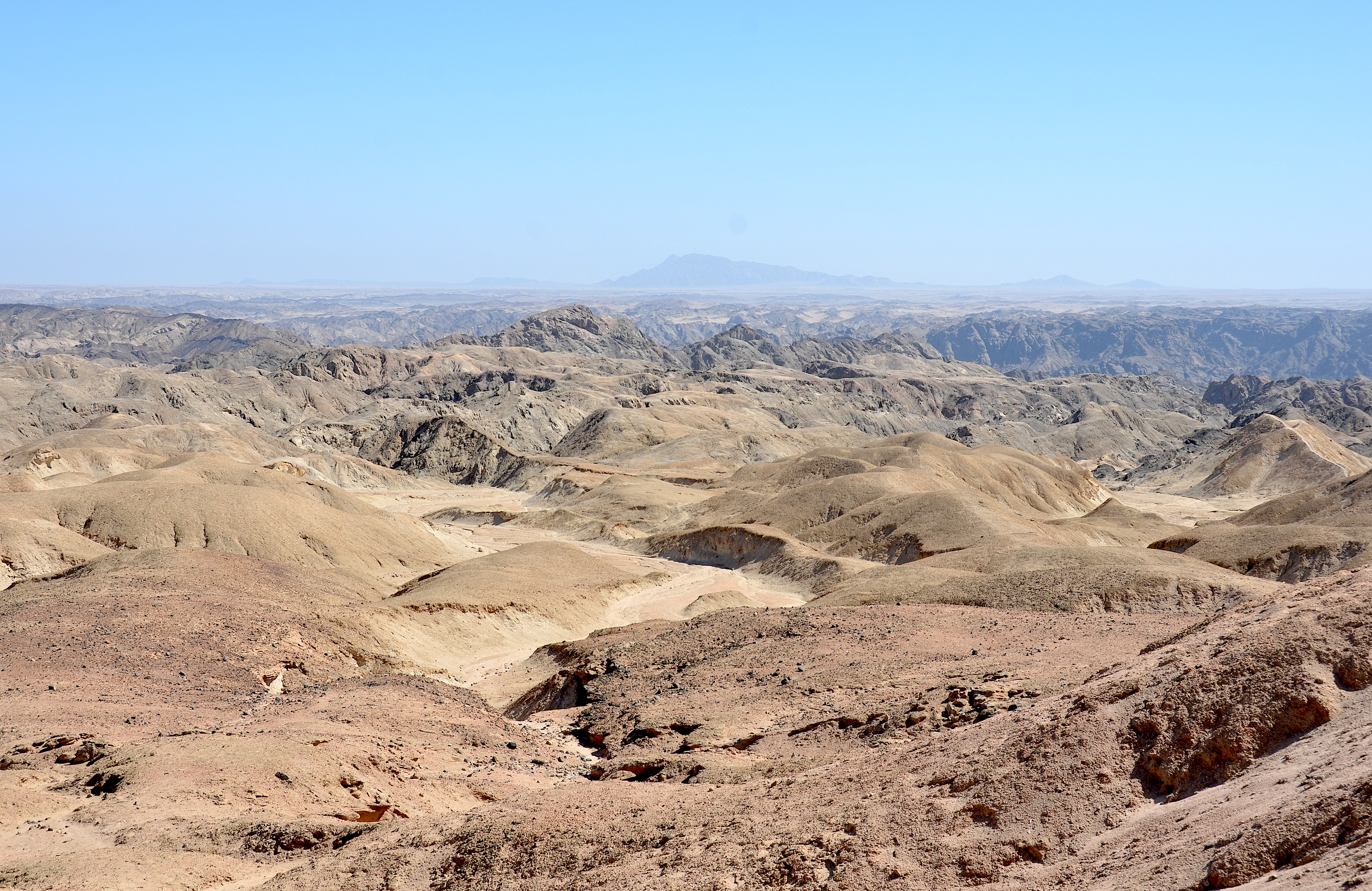 Moon Landscape in Namibia (2014)